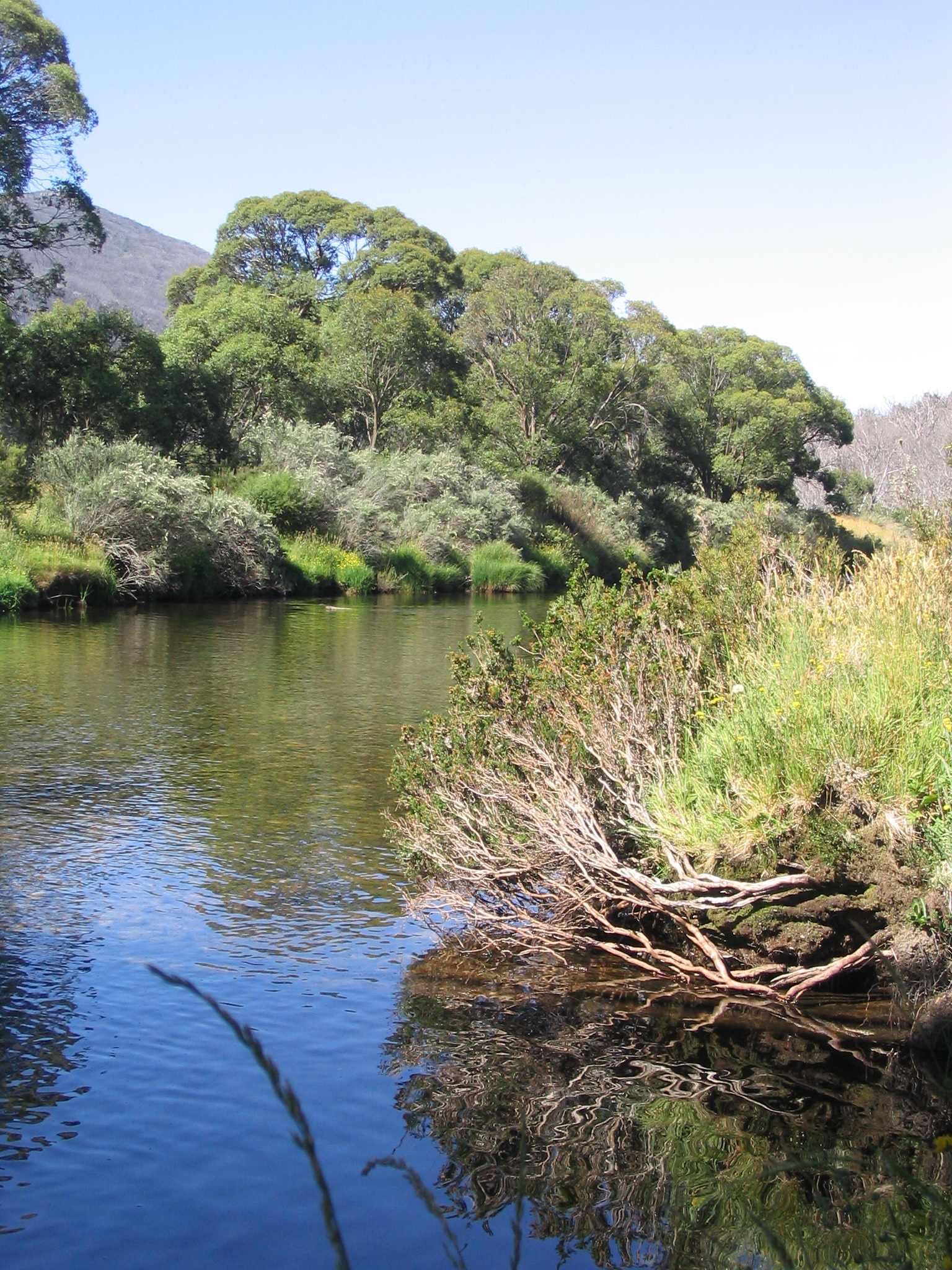 Thredbo River, Crackenback, NSW, Australia. Shows calm water with riparian vegetation.